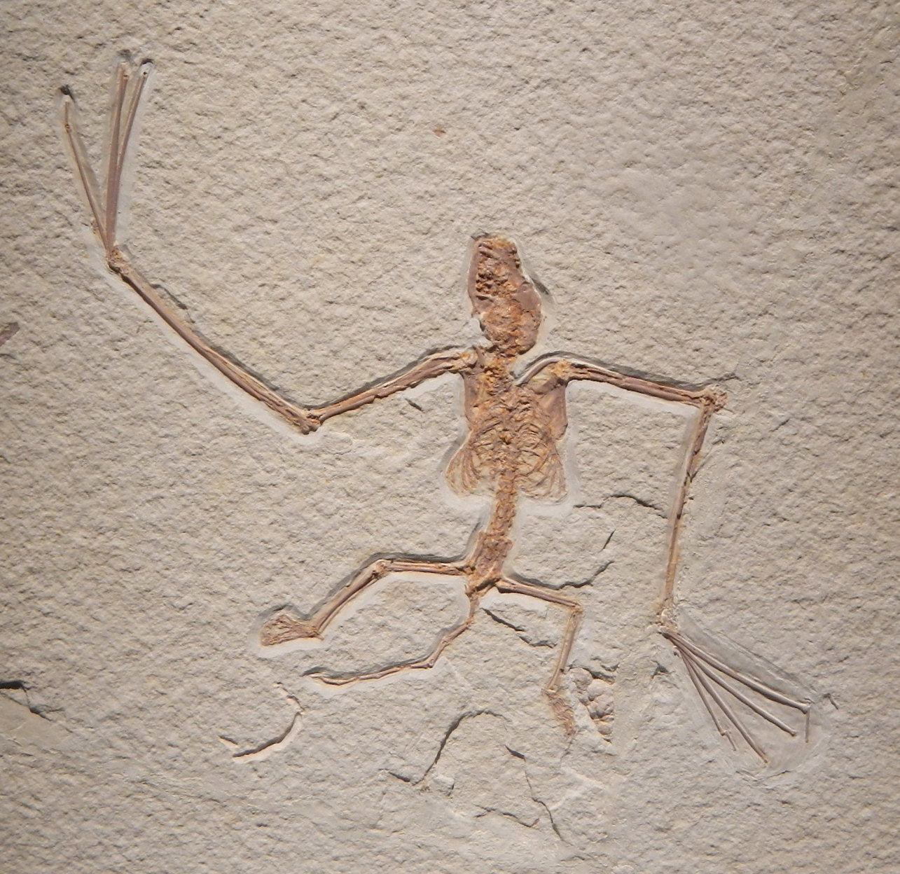 Icaronycteris index fossil Houston